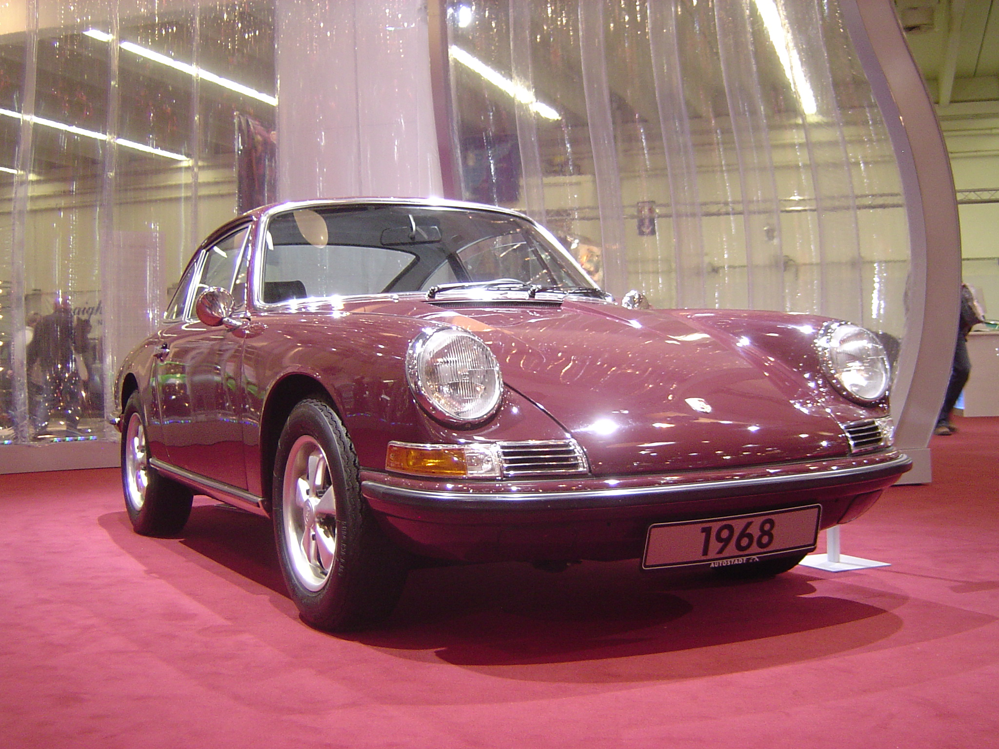 Classic Porsche 911